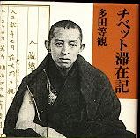 Tokan Tada